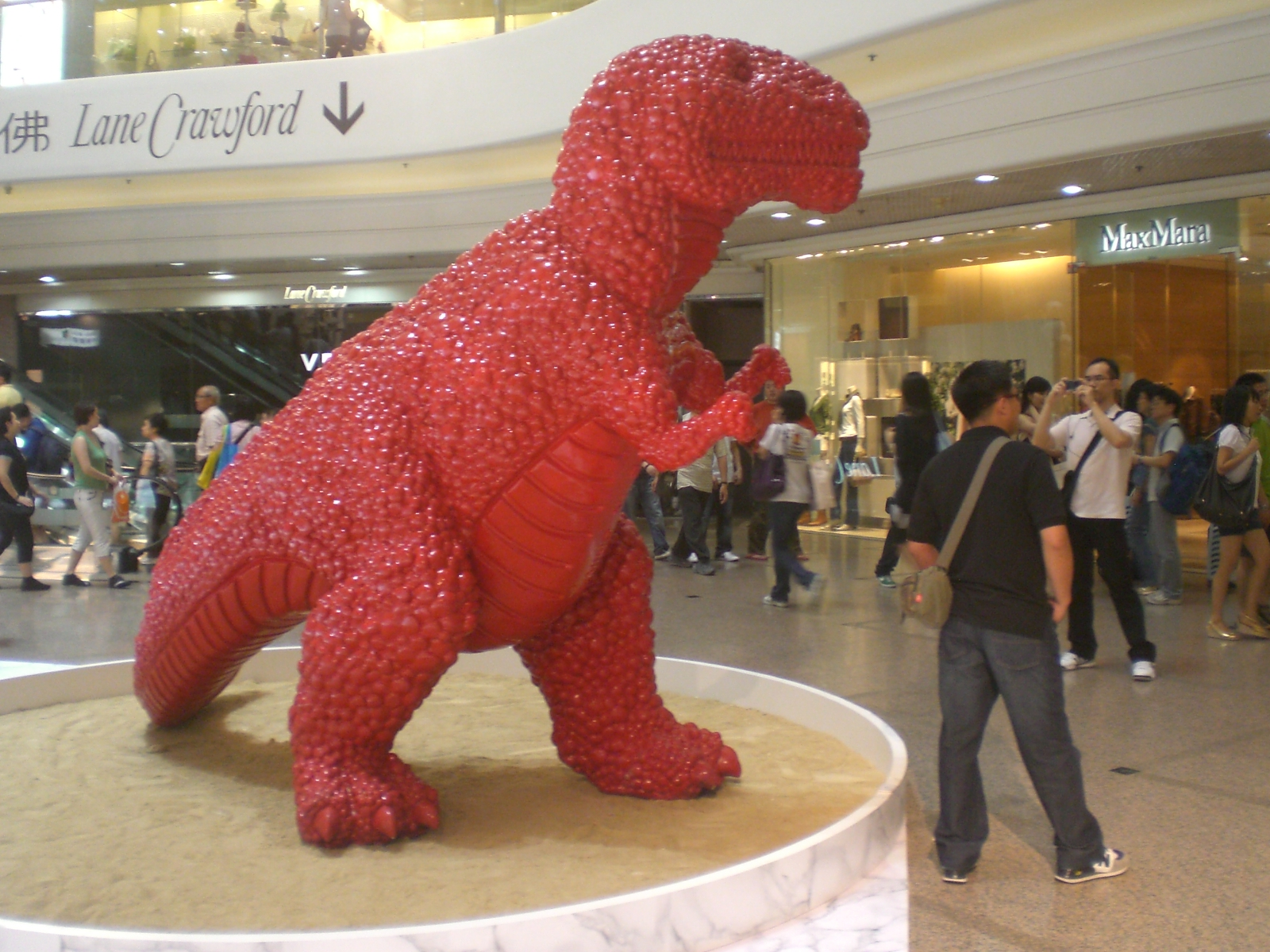 香港時代廣場當代藝術展覽2008年8月, Sui Jianguo 隋建國Art Exhibition in 2008